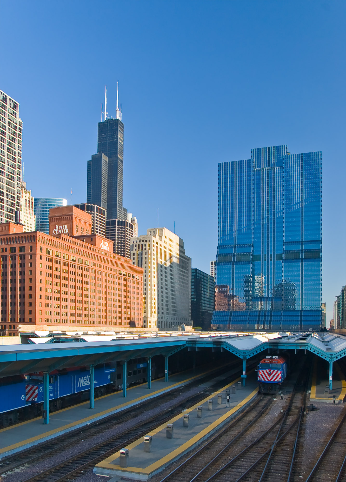 Oglivie Transportation Center, Chicago, Illinois.Photographed from the Clinton 'L' Station